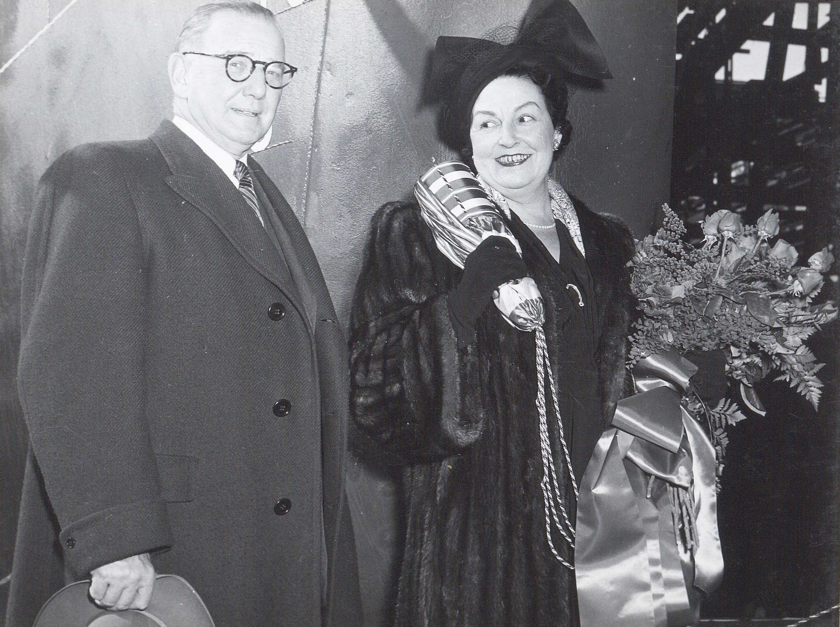 Willard F Jones and his wife Ruth Black christen the SS San Tome